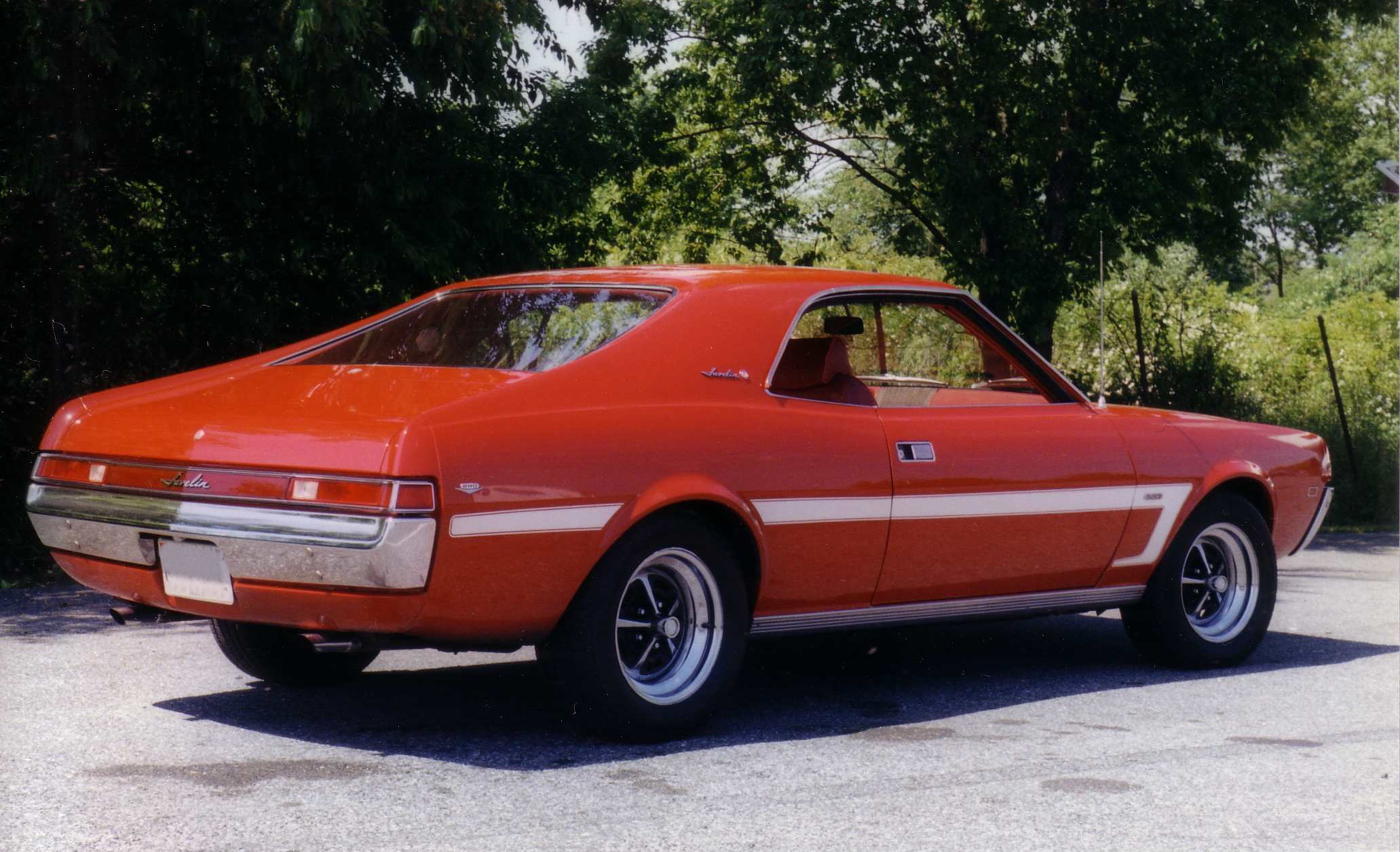 1969 AMC Javelin SST. A two-door hardtop "pony car" made by American Motors Corporation. Finished in "Matador Red" (paint code P39) with optional factory bodyside "C" stipe in white.